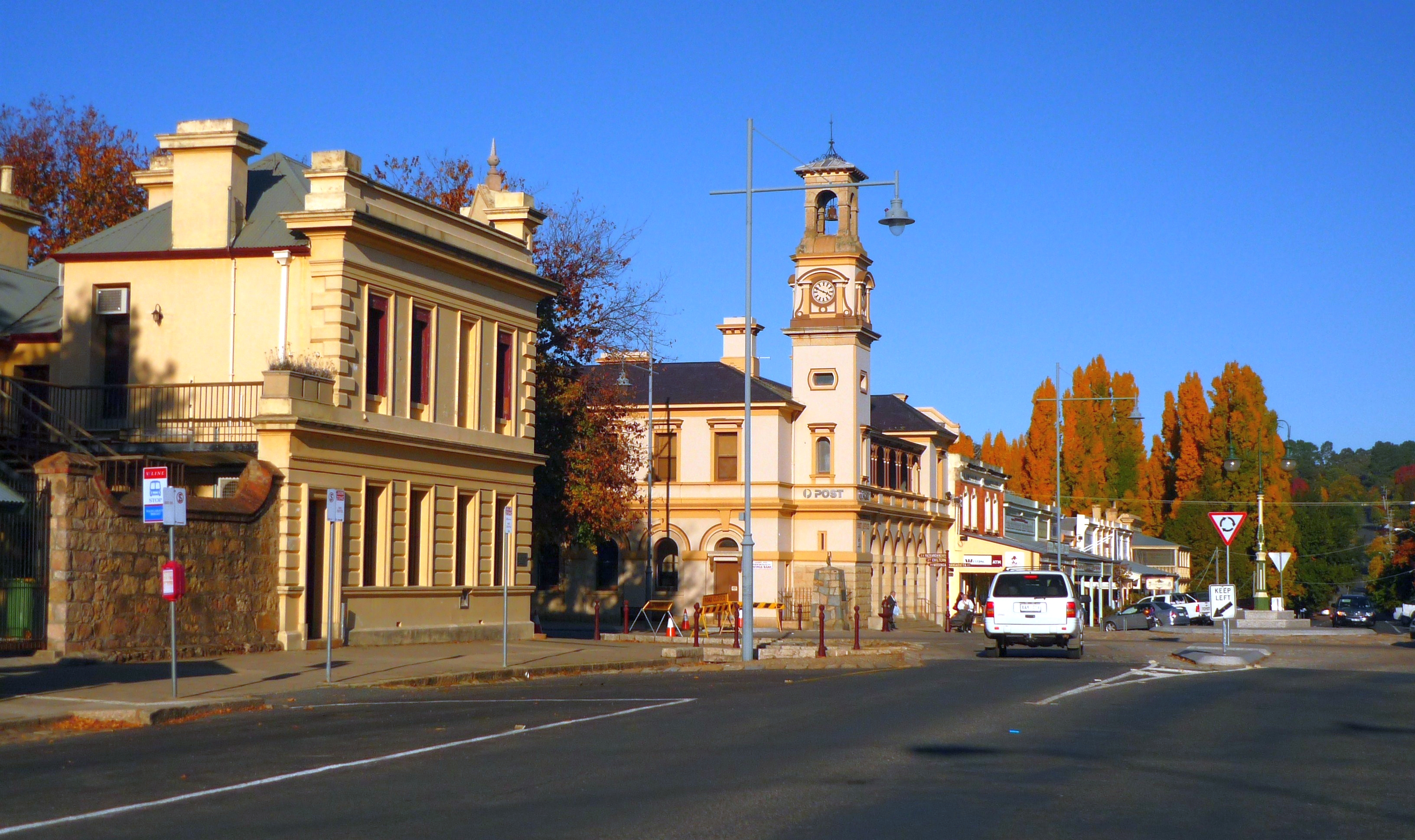 Photo of Camp Street in Beechworth, Victoria showing Post Office.